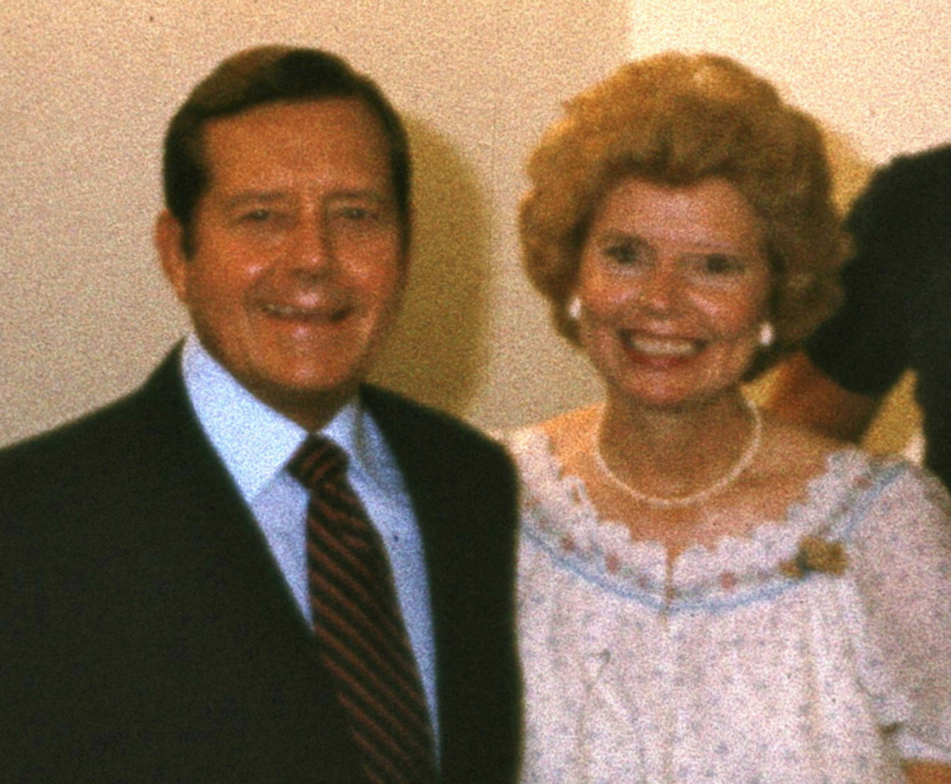 Bill Bright and his wife, Rantasipi, Turku, Finland